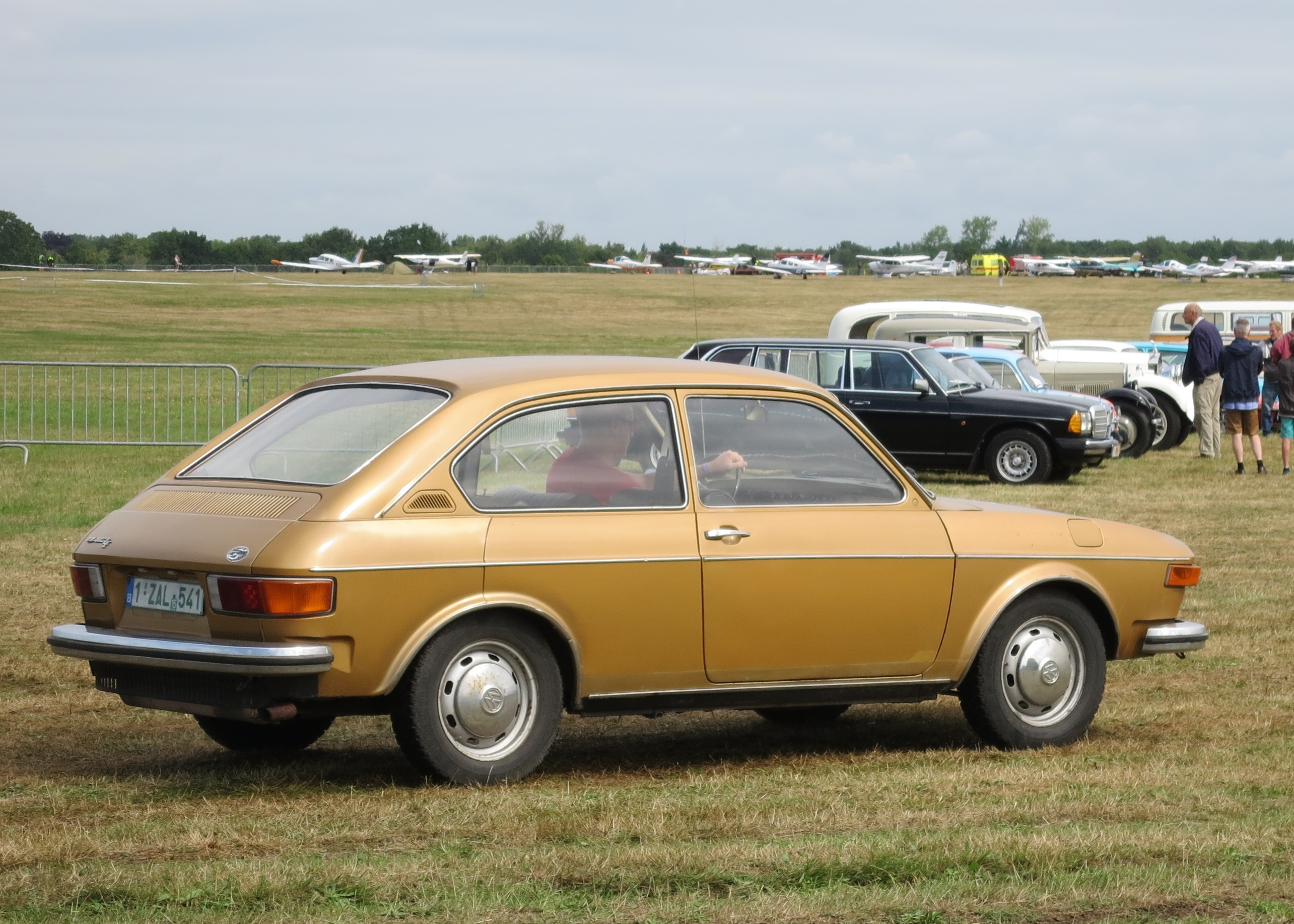 Volkswagen 412 (Type 4) 2-door in Belgium